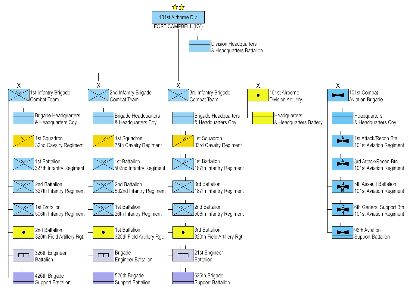 US Army 101st Airborne Division Structure